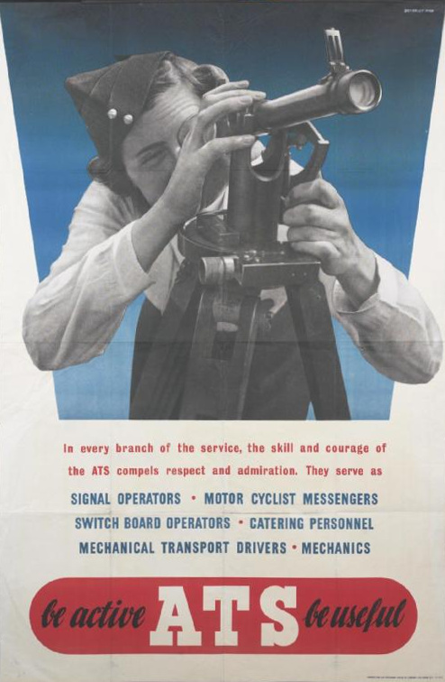 Be Active - Ats - Be Useful whole: the image occupies the upper two thirds, with the title separate and positioned in the lower quarter, in black cursive script and in white, held within a red inset. The test is separate and located in the lower half, in red and in blue. All set against a white background. image: a half-length depiction of a ATS member looking through a telescope that stands on a tripod. text: BEVERLEY PICK In every branch of the service, the skill and courage of the ATS compels respect and admiration. They serve as SIGNAL OPERATORS. MOTOR CYCLIST MESSENGERS SWITCH BOARD OPERATORS. CATERING PERSONNEL MECHANICAL TRANSPORT DRIVERS. MECHANICS be active ATS be useful PRINTED FOR H.M. STATIONERY OFFICE BY J. WEINER LTD. LONDON. W.C.1. 51-3713.